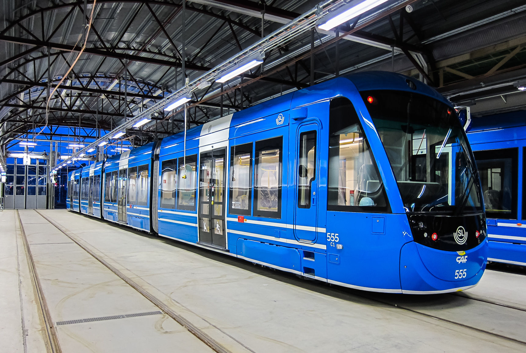 CAF A36 no. 555